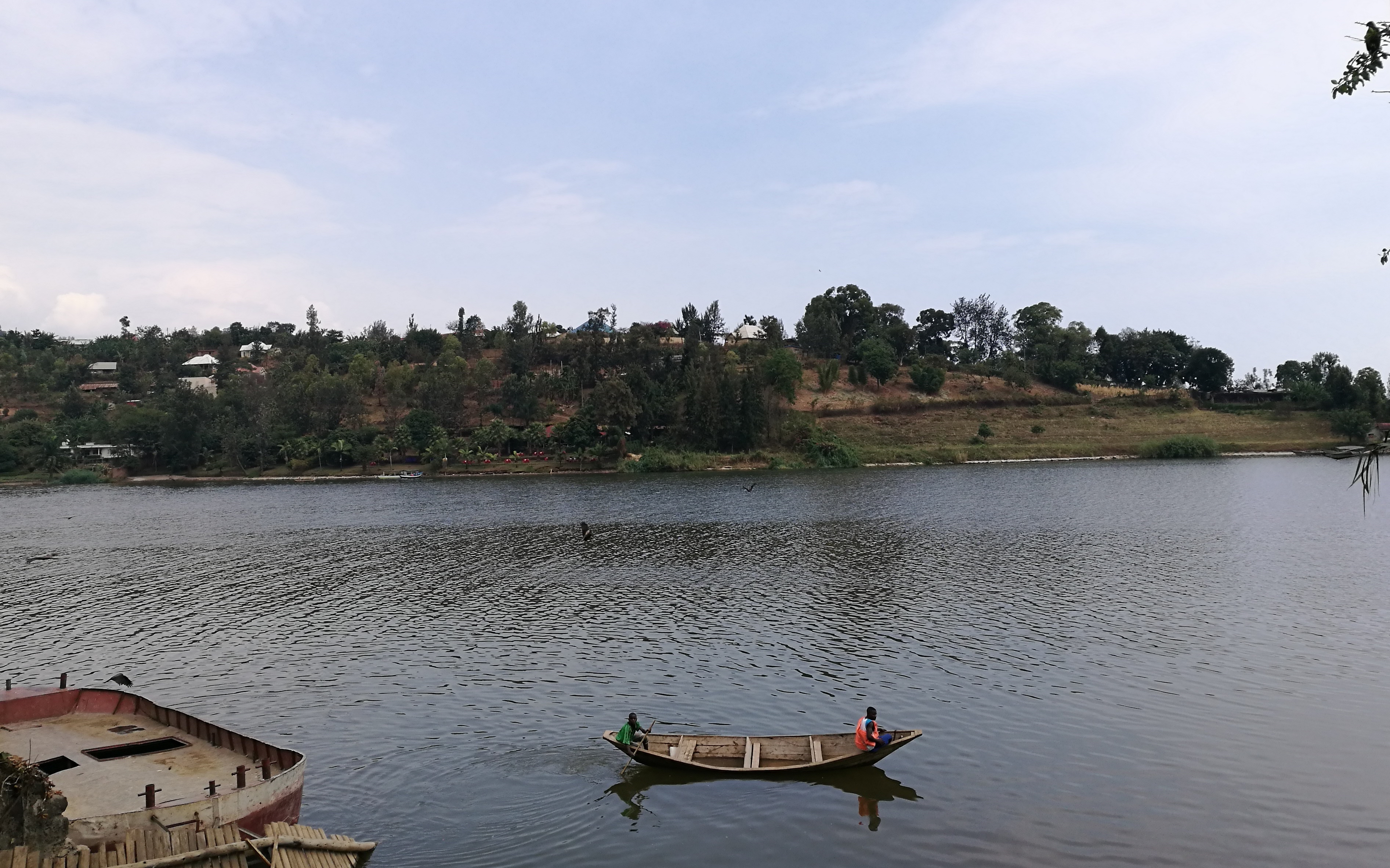 2 people row a boat along the calm Lake Kivu in Rubavu, Rwanda This is an image with the theme "Africa on the Move or Transport" from: Rwanda